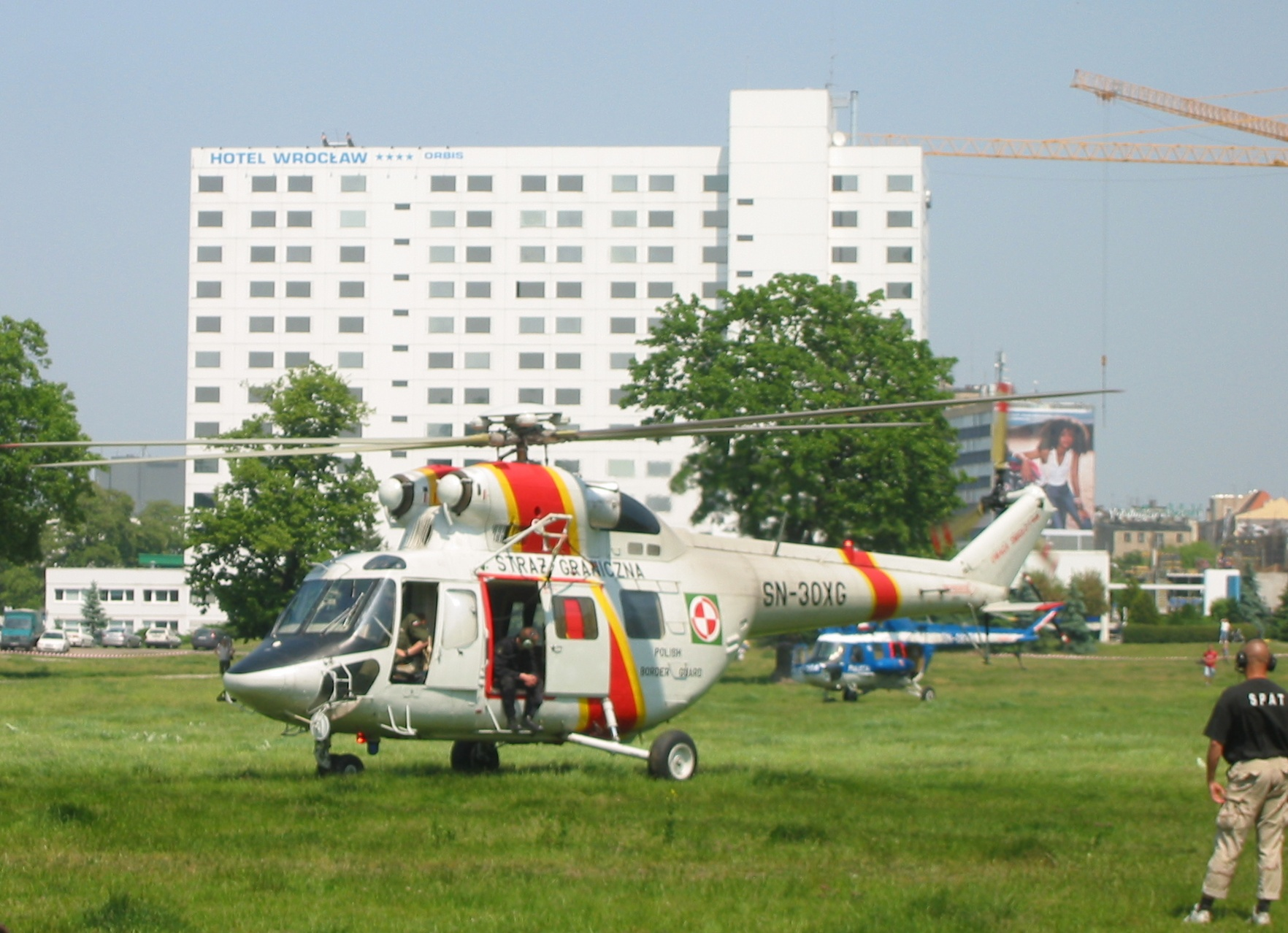 Polish Border Guard helicopter (PZL W-3 Sokół (SN-30XG)) during exercise in Wrocław in background - blue Police helicopter and Orbis Hotel Wrocław